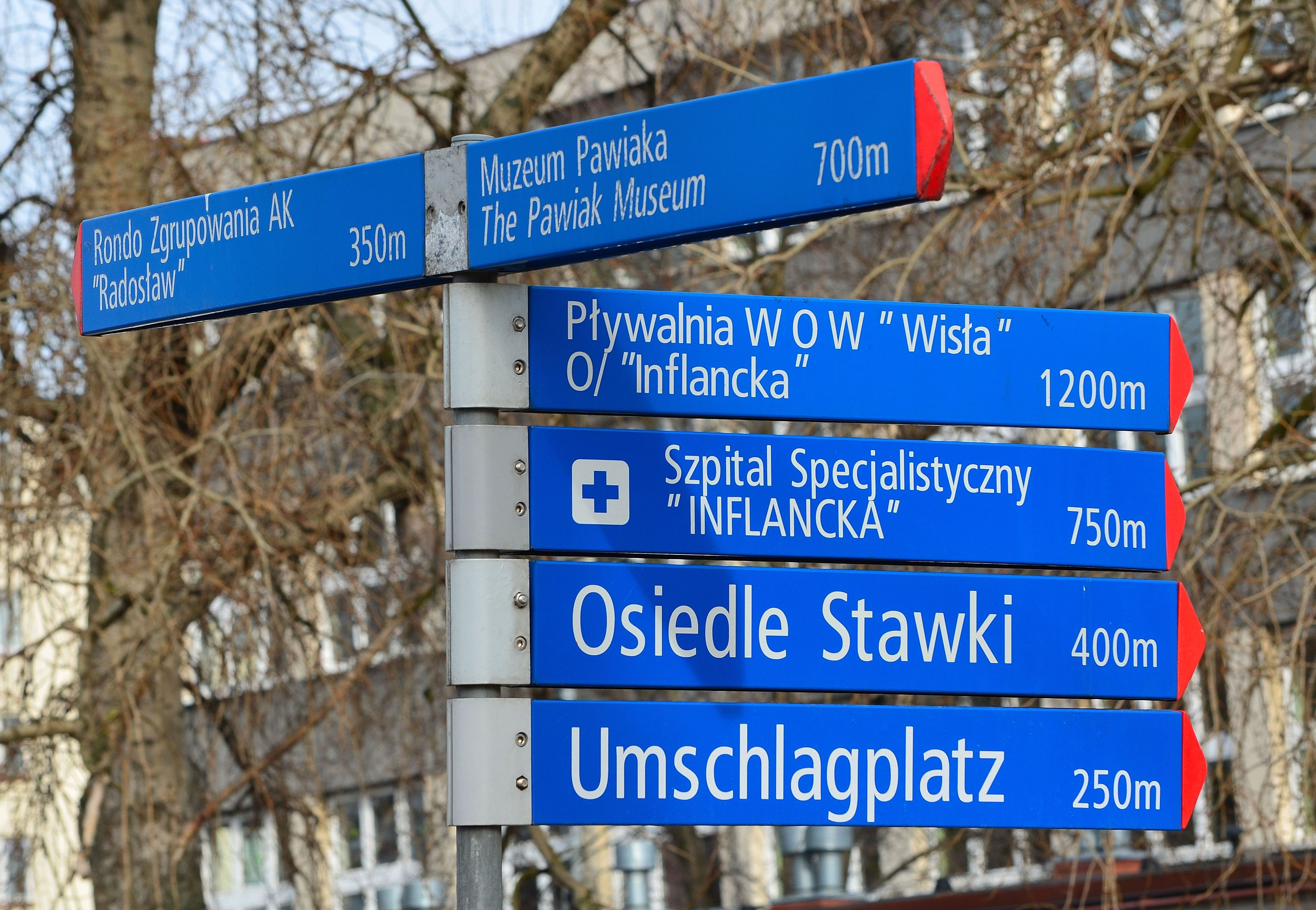 MSI (City Information System) fingerpost near the intersection of John Paul II Avenue and Stawki Street in Warsaw